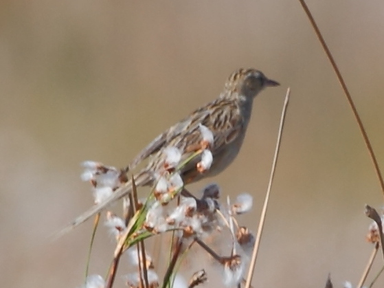 Asthenes hudsoni_Hudson's Canastero at Lagoa do Peixe National Park - Tavares - RS - Brazil